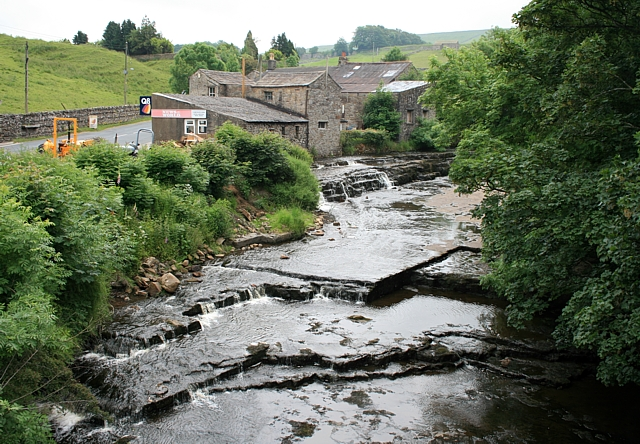 River Bain The Bain - all two-and-a-half miles of it, from Semerwater to the Ure at Yorebridge - is the shortest watercourse in Britain to be graced with the title of 'river'. Bainbridge Falls, with Metcalfe's garage and petrol station on the left.